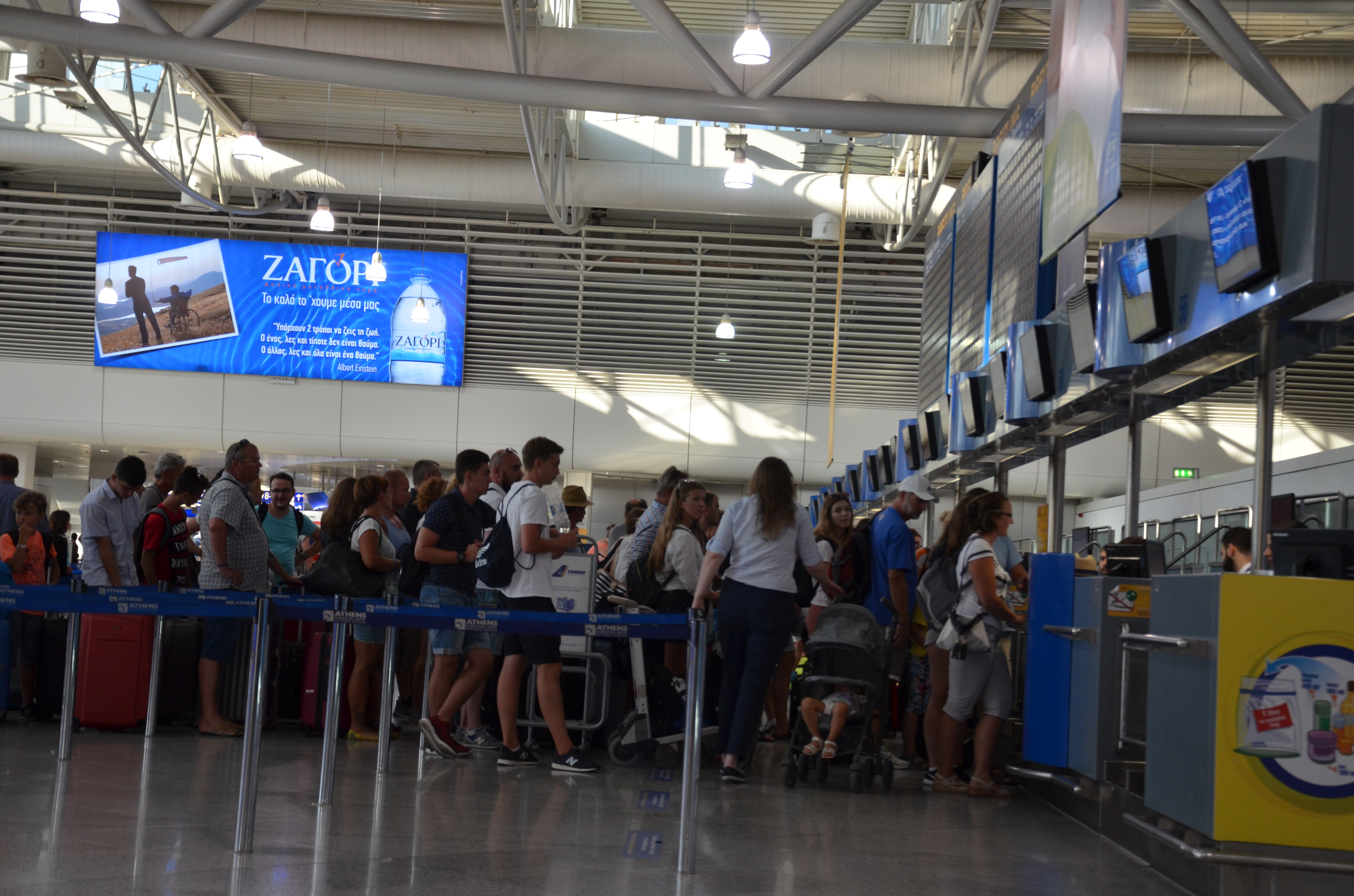 Check-in desks at Athens Eleftherios Venizilos Airport